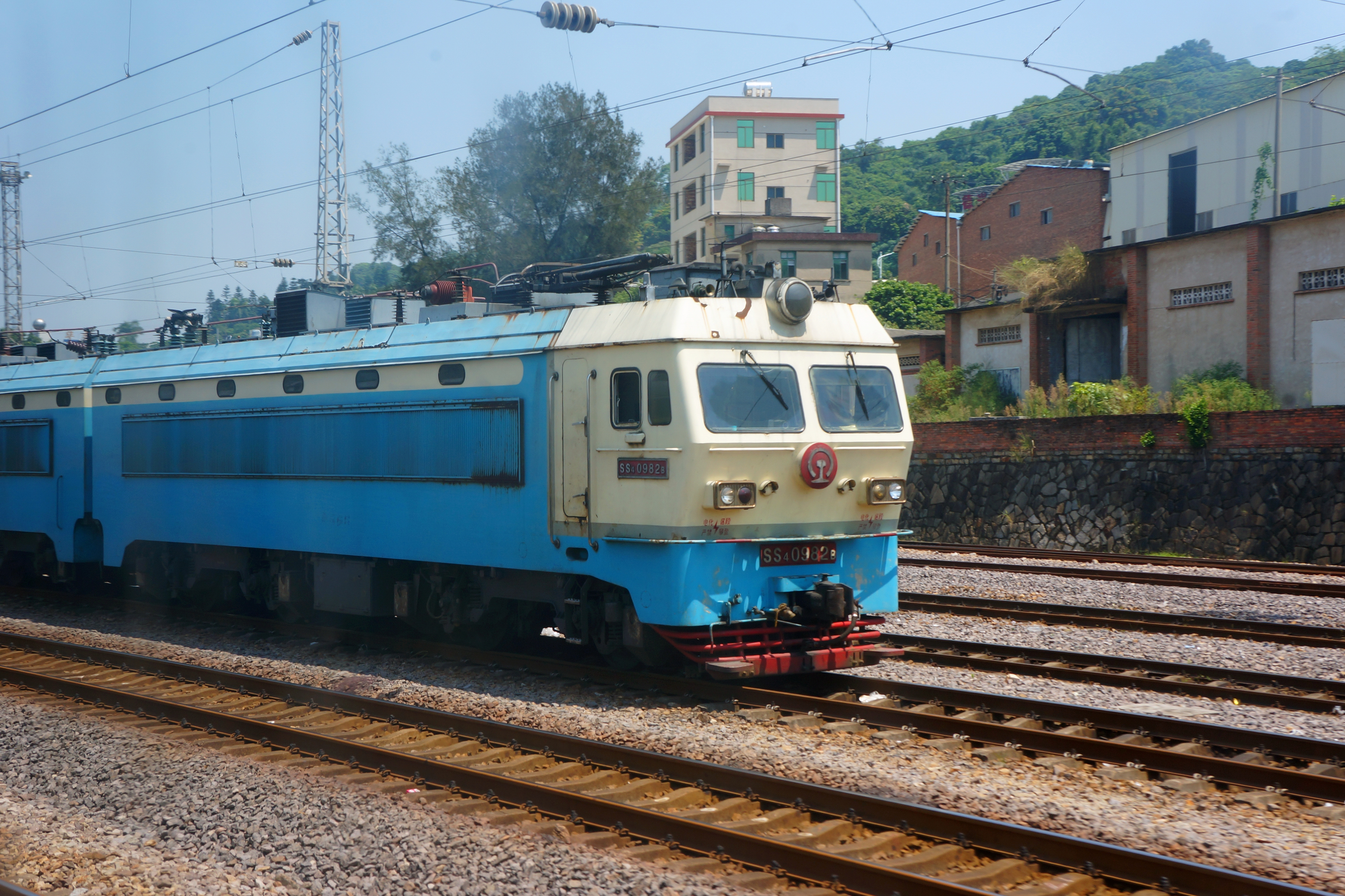 201708 SS4-0982 at Zhangzhoudong Station